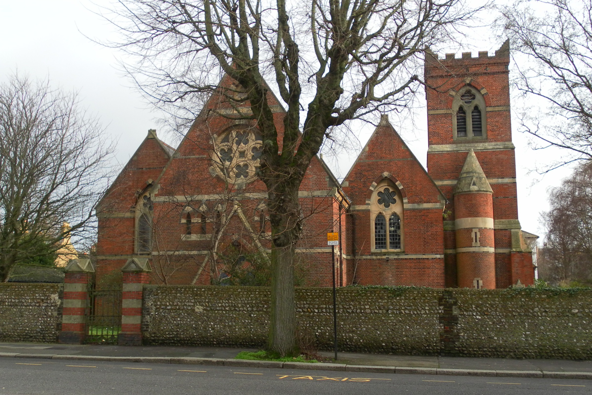 Former parish church of the Holy Trinity, Blatchington Road, Hove, Sussex, England, seen from the west from Goldstone Villas